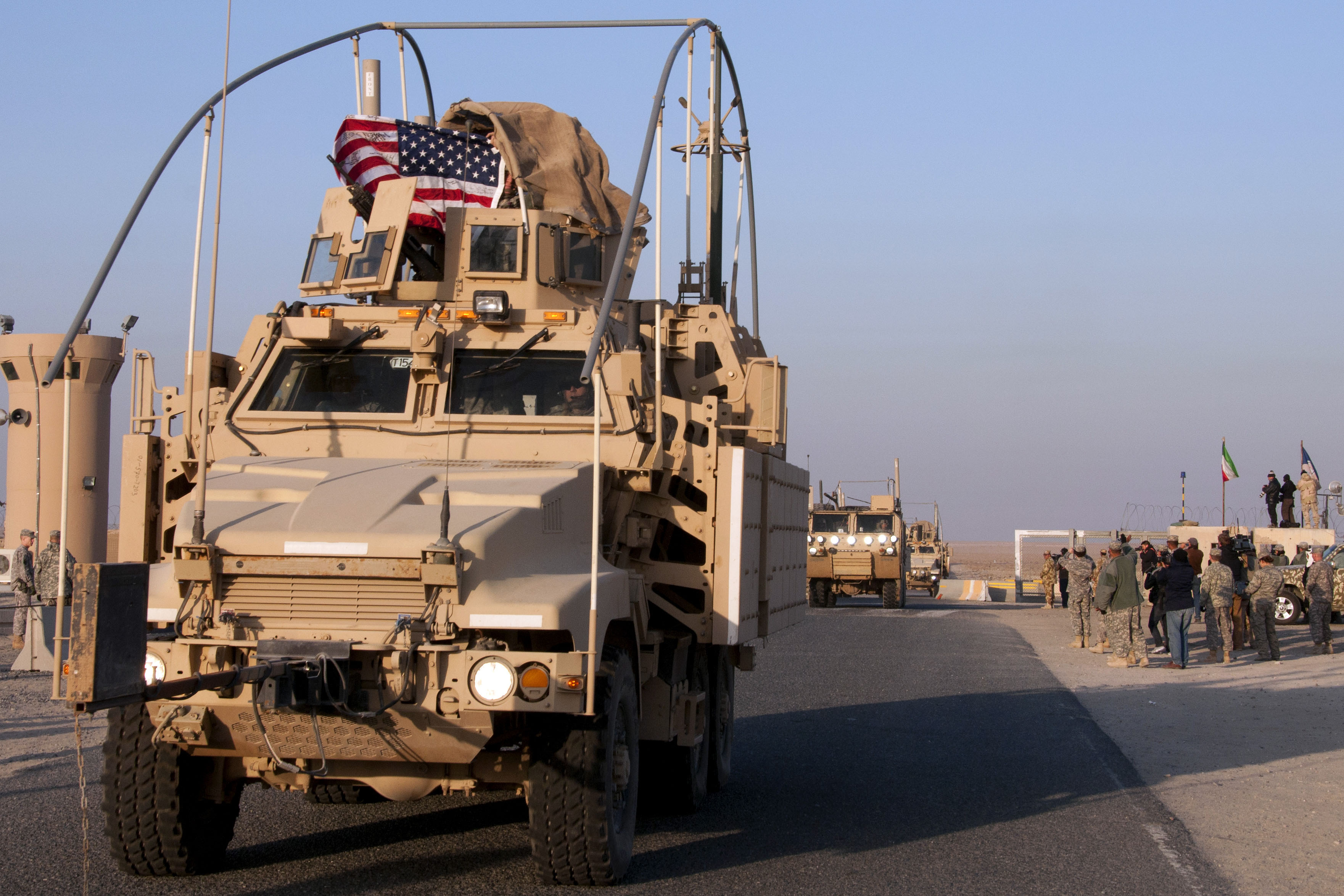 A U.S. flag flies from a Mine Resistant Ambush Protected vehicle, part of the last convoy to leave Iraq, as it crosses over into Kuwait signaling the end of Operation New Dawn on Dec. 18, 2011.